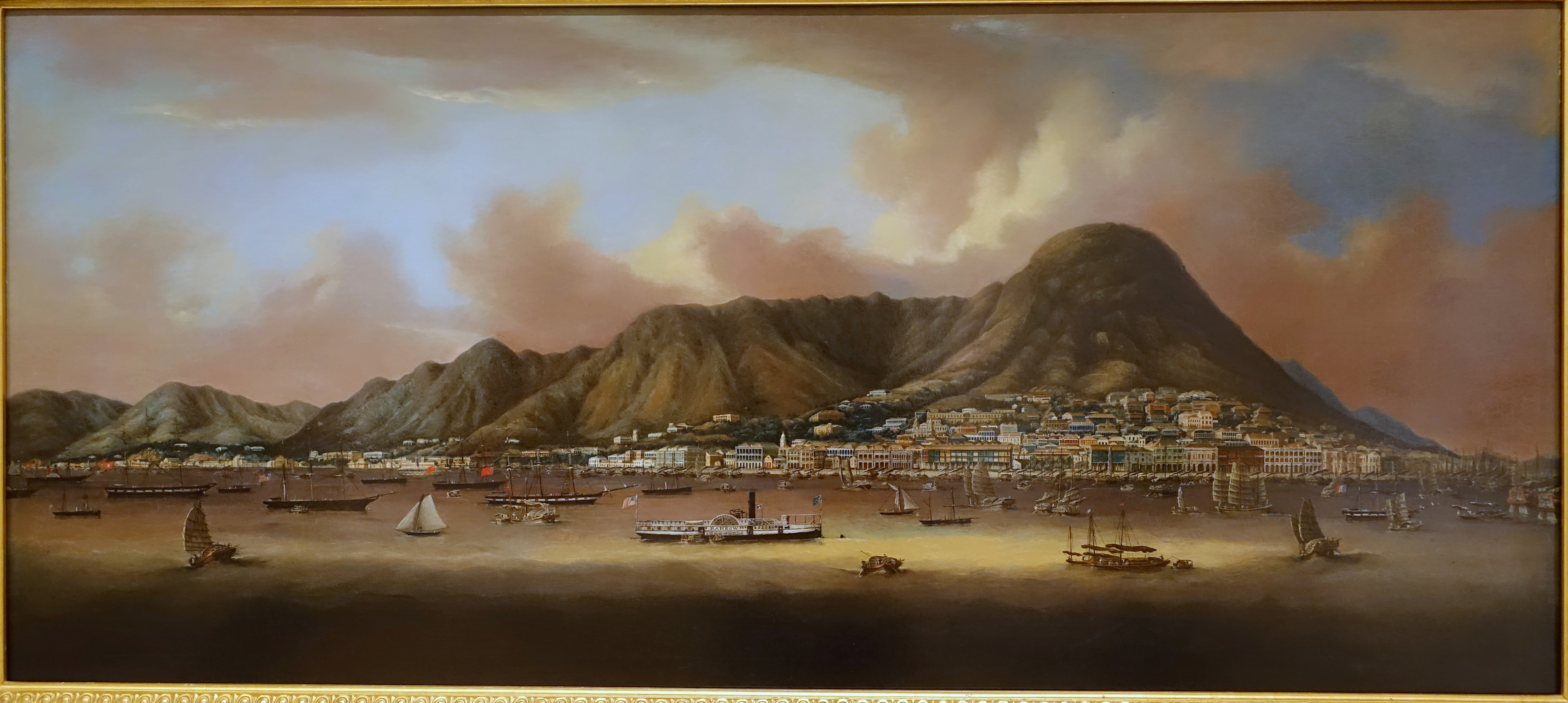 Exhibit in the Peabody Essex Museum - Salem, Massachusetts, USA.